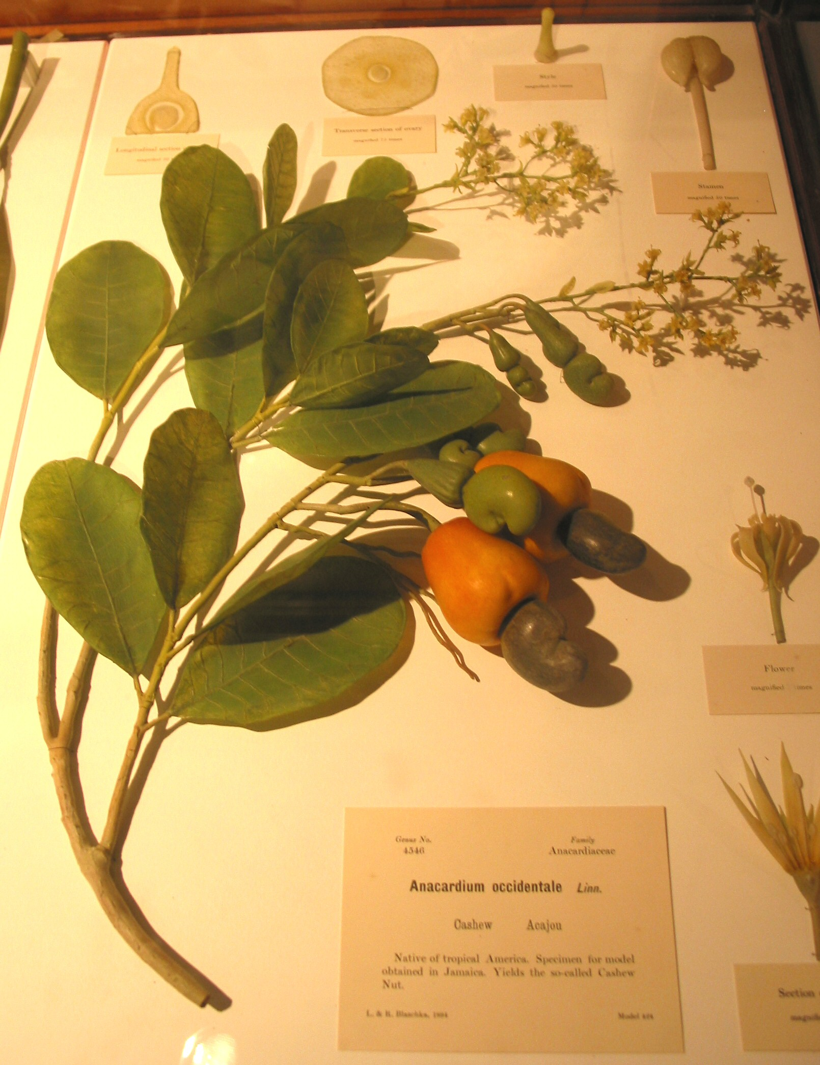 Glas model of a twig of the Cashew, at the Harvard Museum of Natural History, by L & R Blaschka.